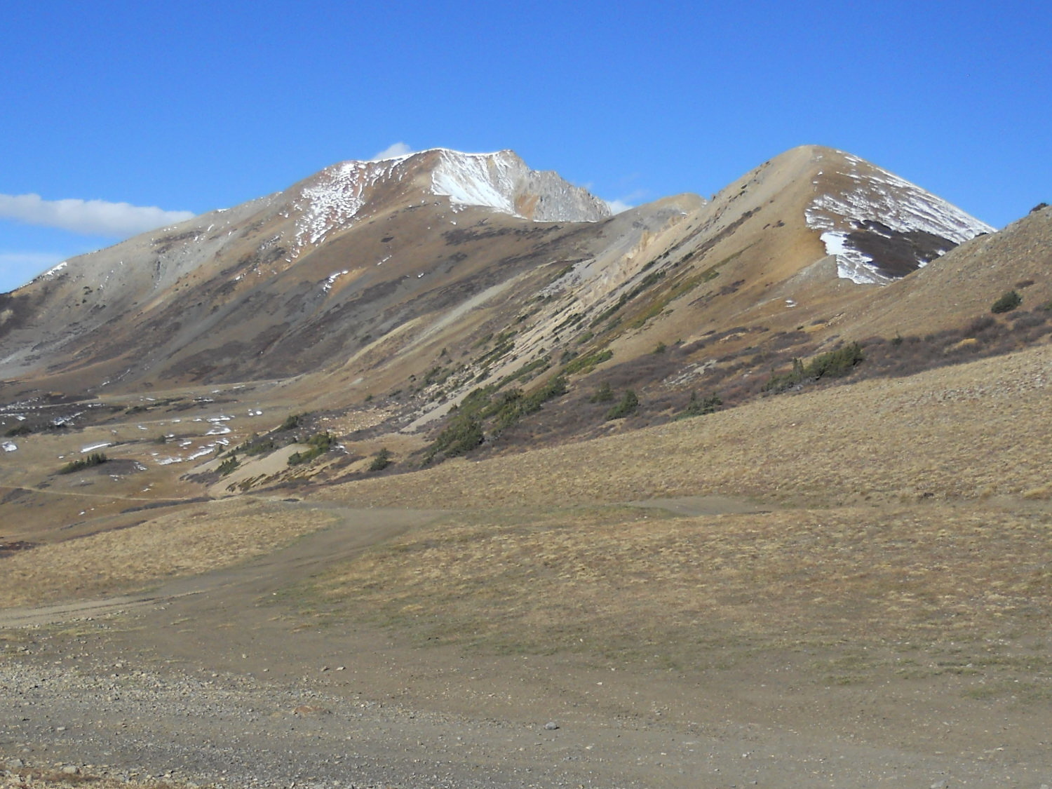 Italian Mountain, elevation 13,378 ft (4,078 m), viewed from the east. The mountain is located in the Gunnison National Forest.